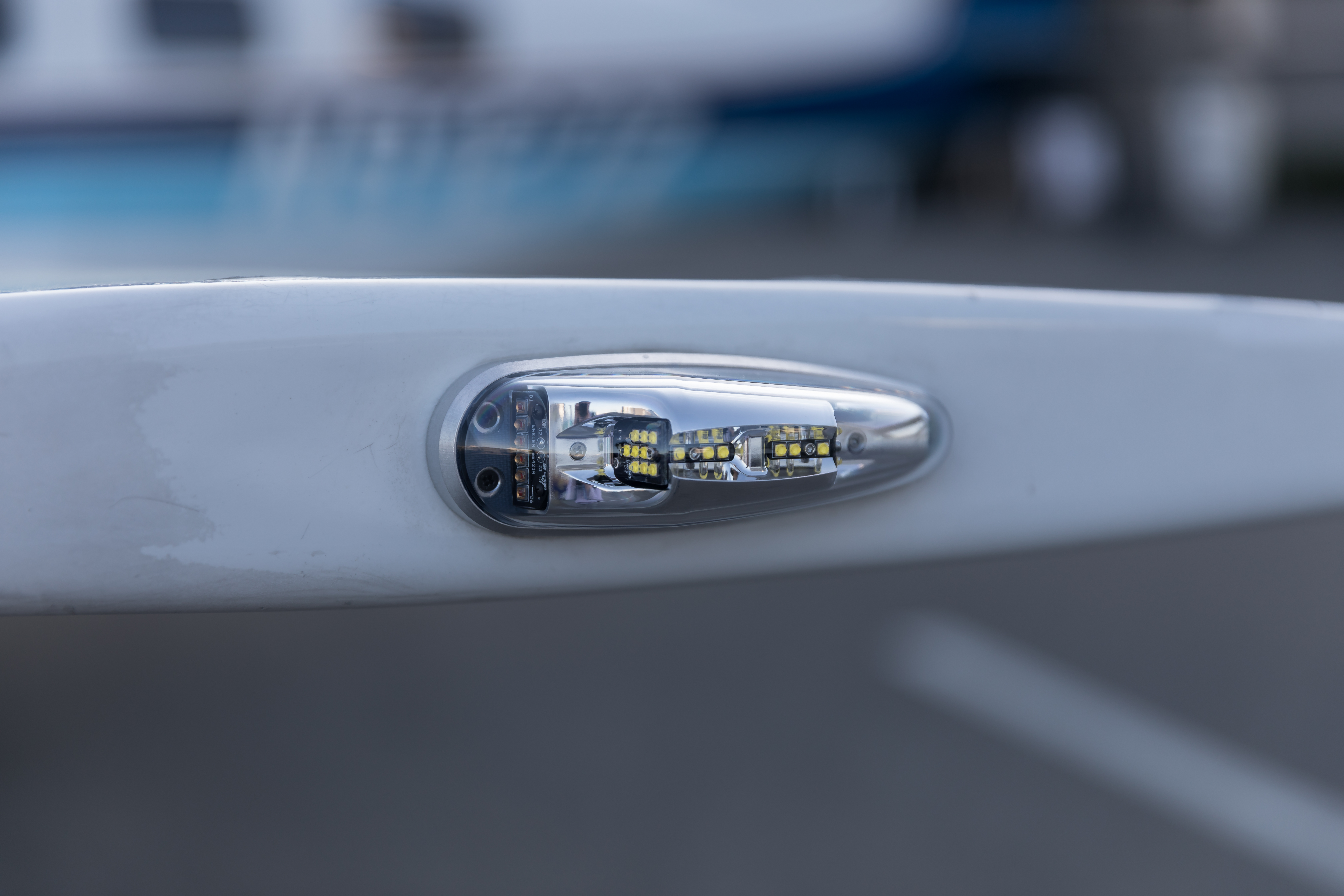 left strobe light of a Piper Malibu, AERO Friedrichshafen 2018